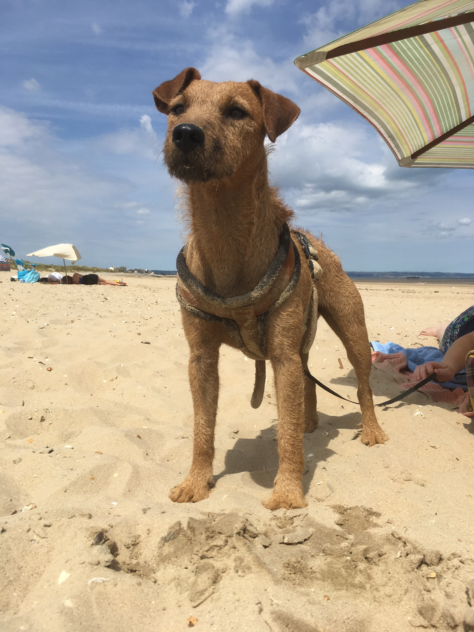 Red male Fell Terrier